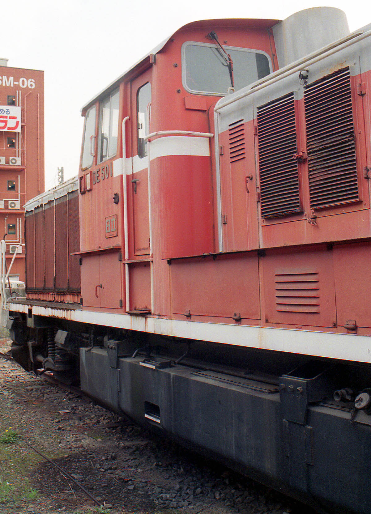 JNR Type DE50 Diesel Locomotive No.1 at Okayama